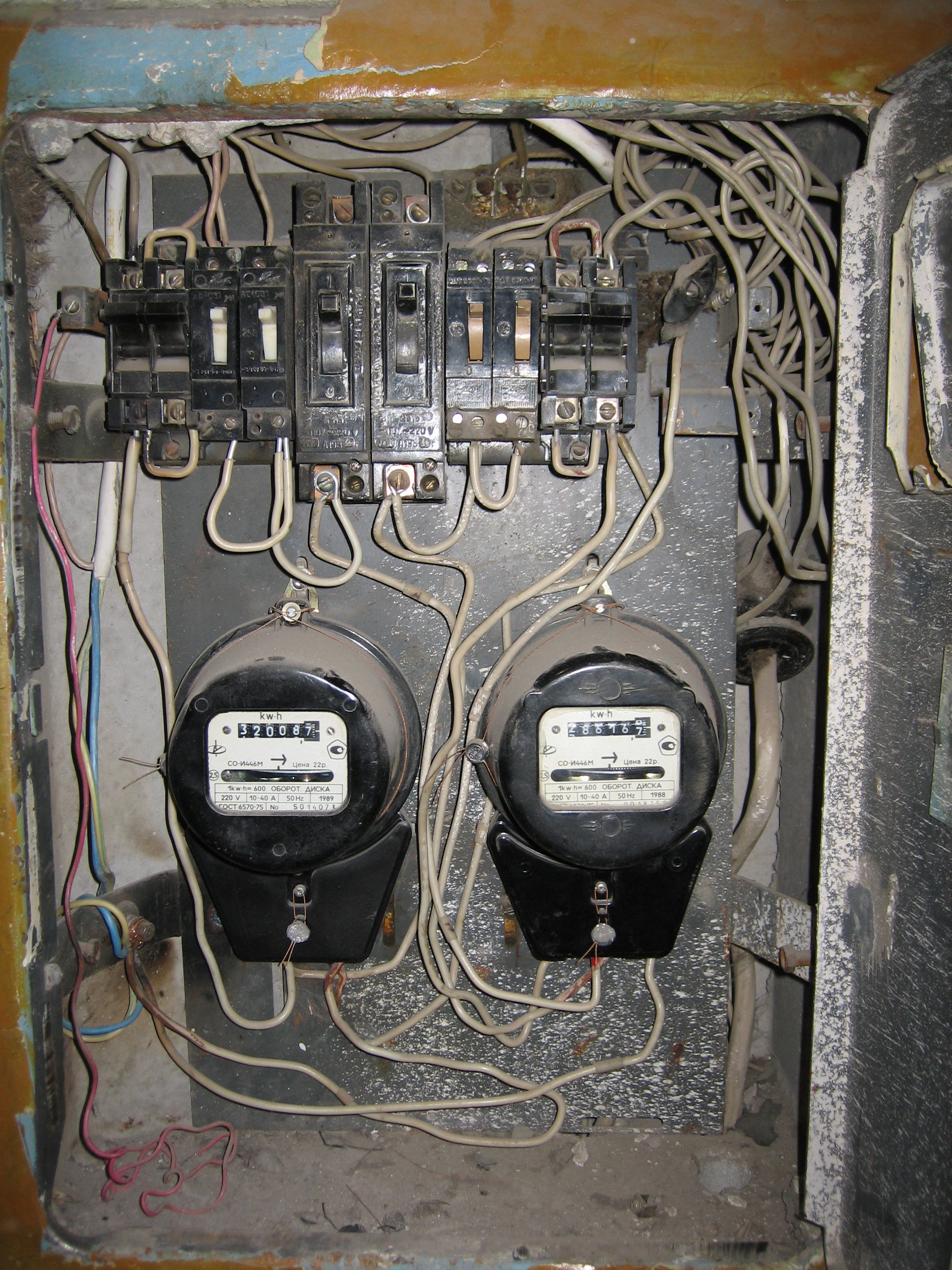 Old electrical installation. That is why I try to replace old equipment as quick as possible and I'm going even to discounts in my price politics. Cause using such equipment will burn your house faster, than you raise money and form all of required papers.